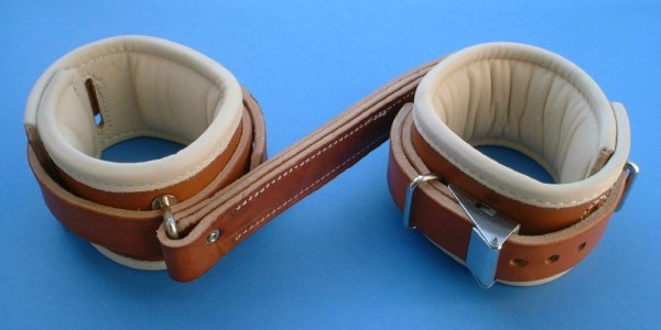 Leg restraint